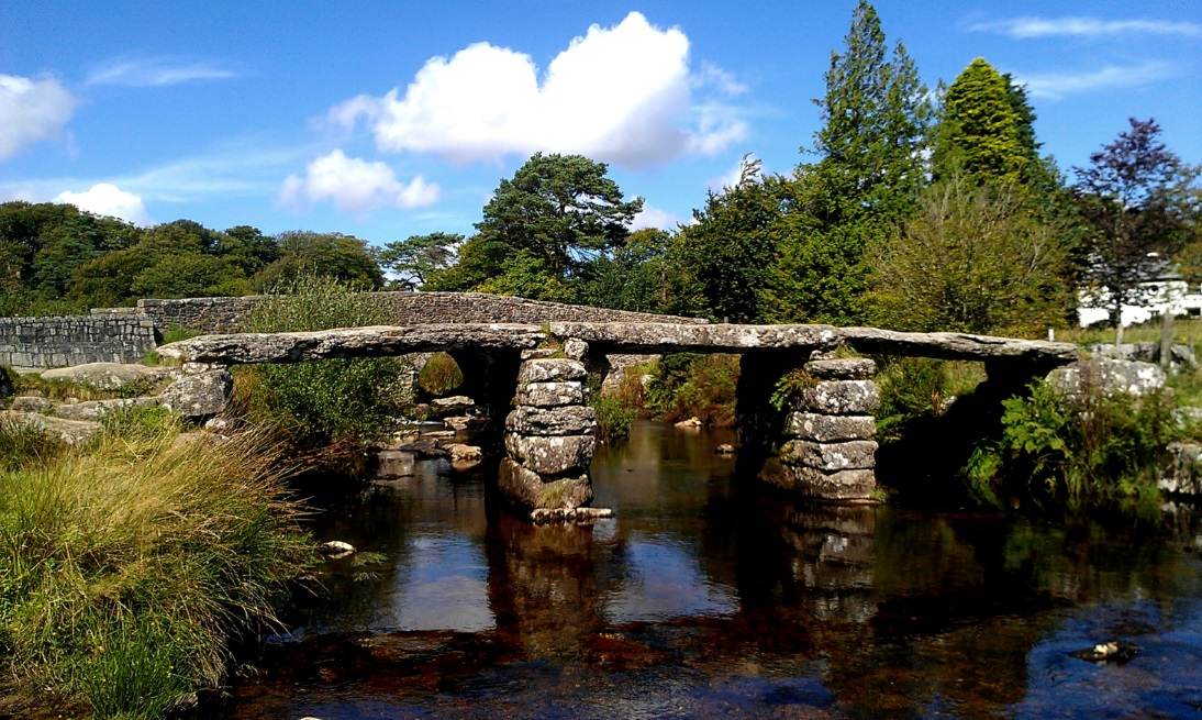 The Medieval Clapper bridge at Postbridge in Dartmoor, Devon.